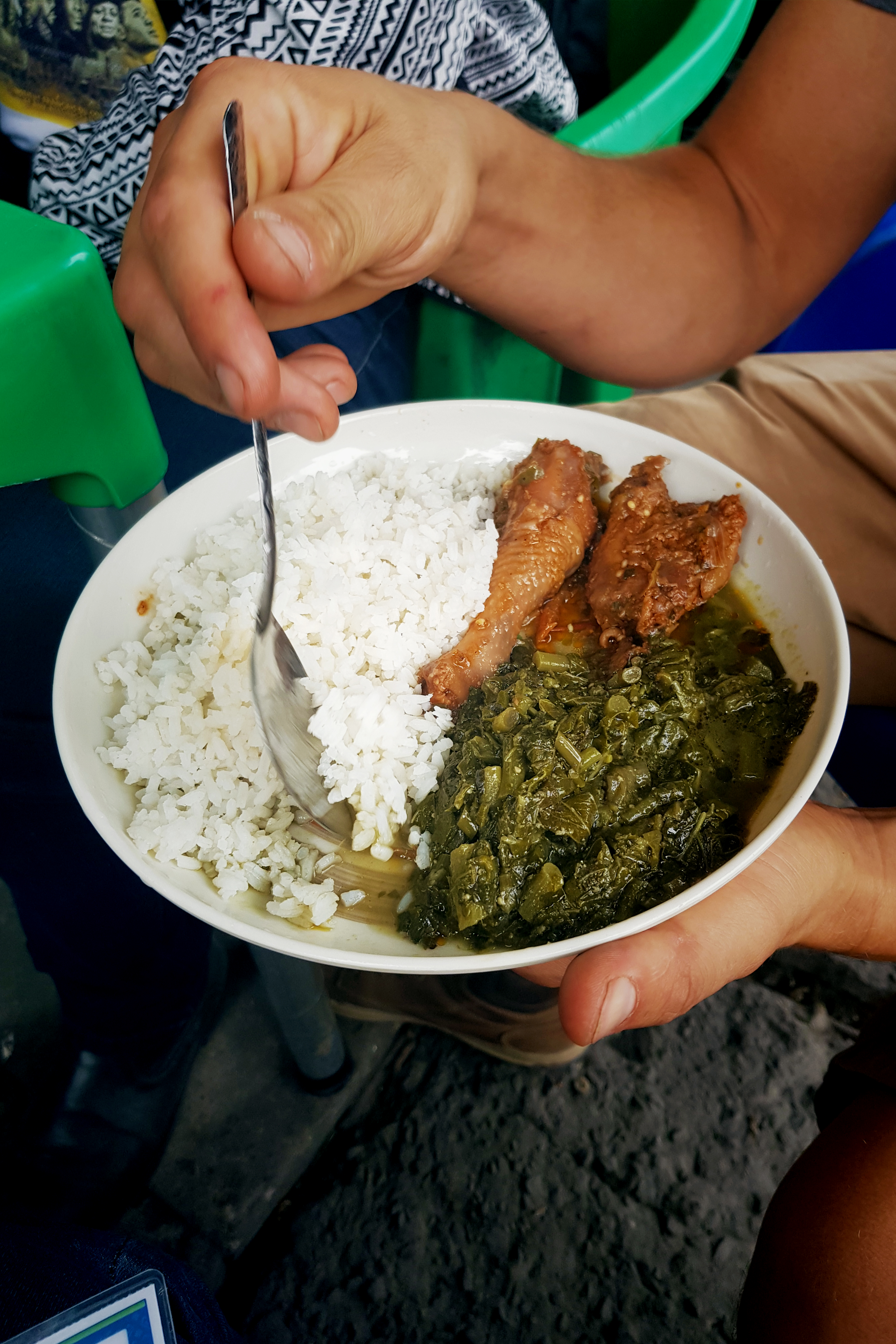 Moambe Chicken